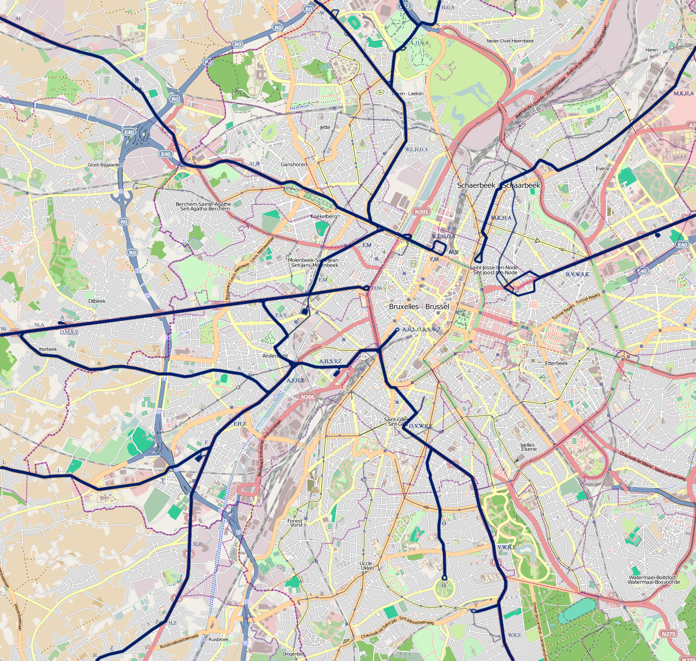 The SNCV network in Brussels around the late 1958. All lines are electric.